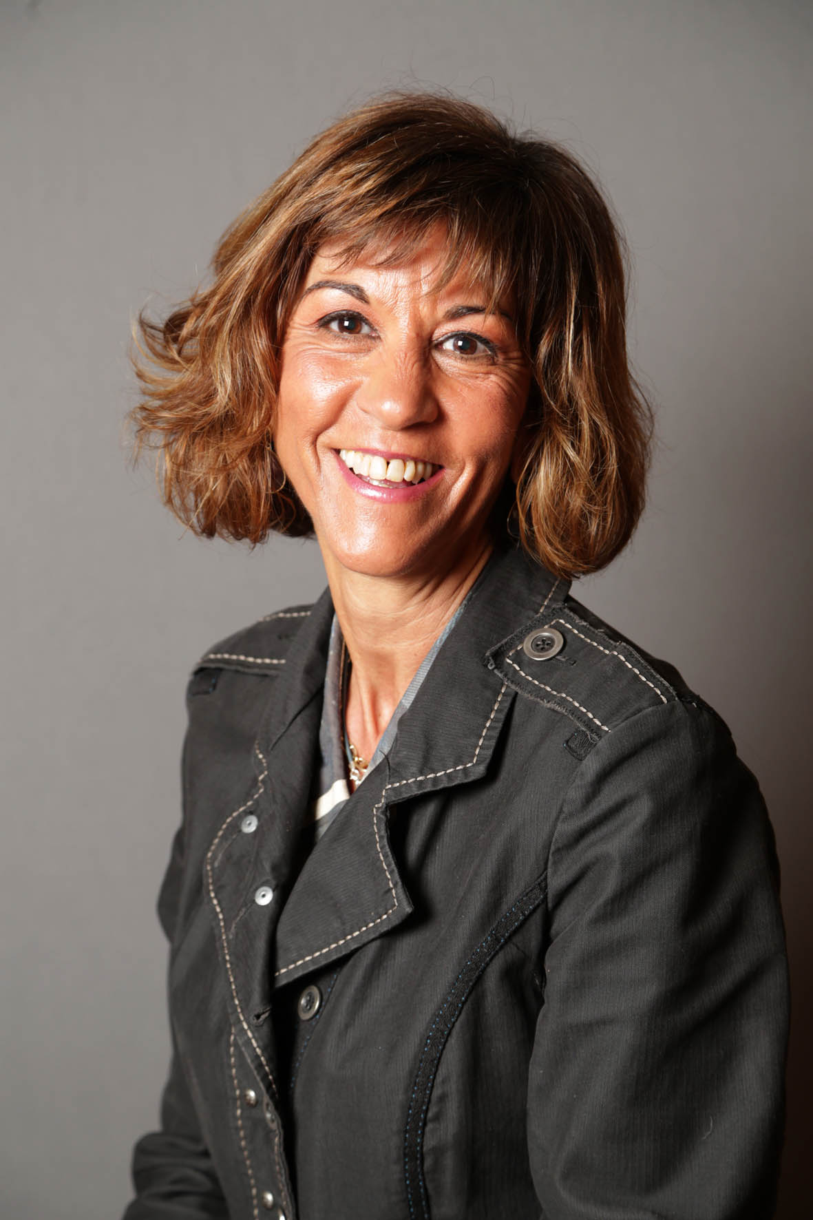 Candidats Eleccions Generals 2015 Beth Abad